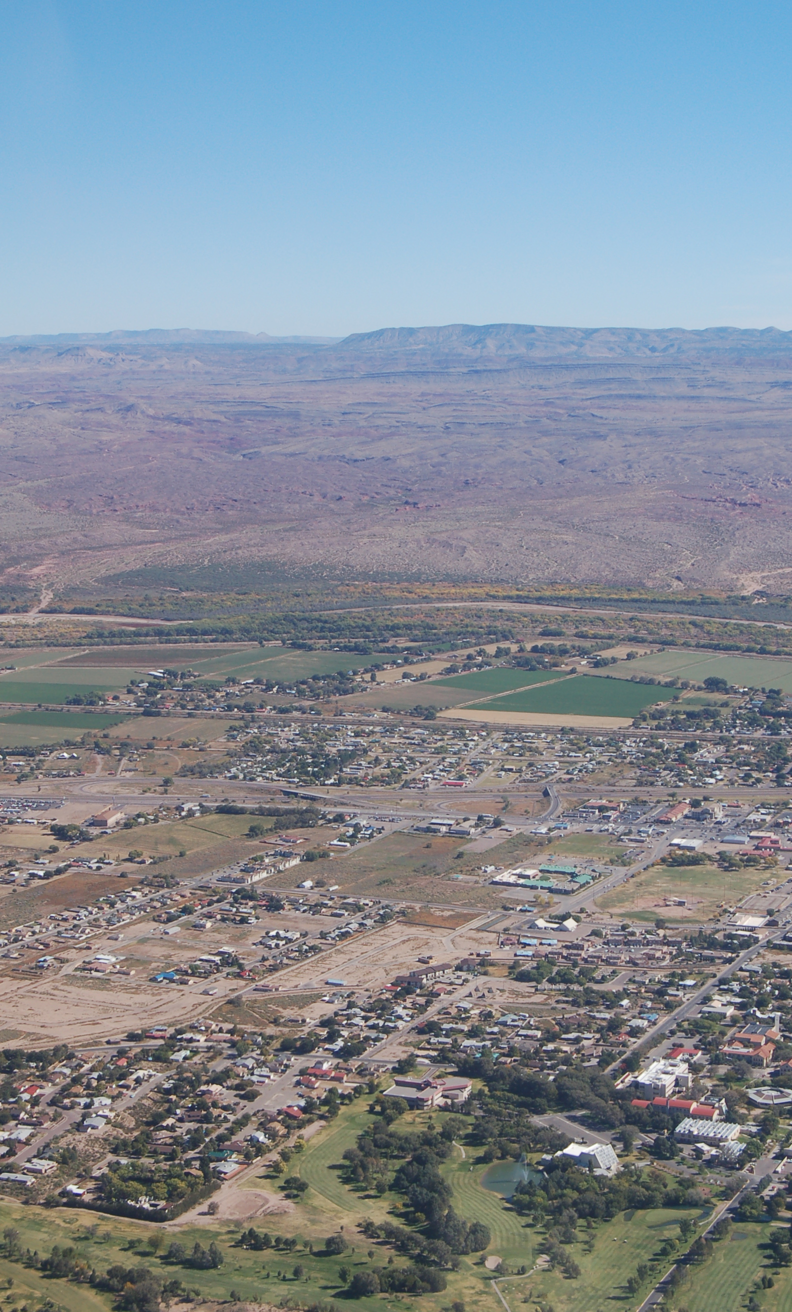 A view of part of Socorro, New Mexico. Aerial photograph, taken from an RV-6A aircraft flown out of Socorro's airport.